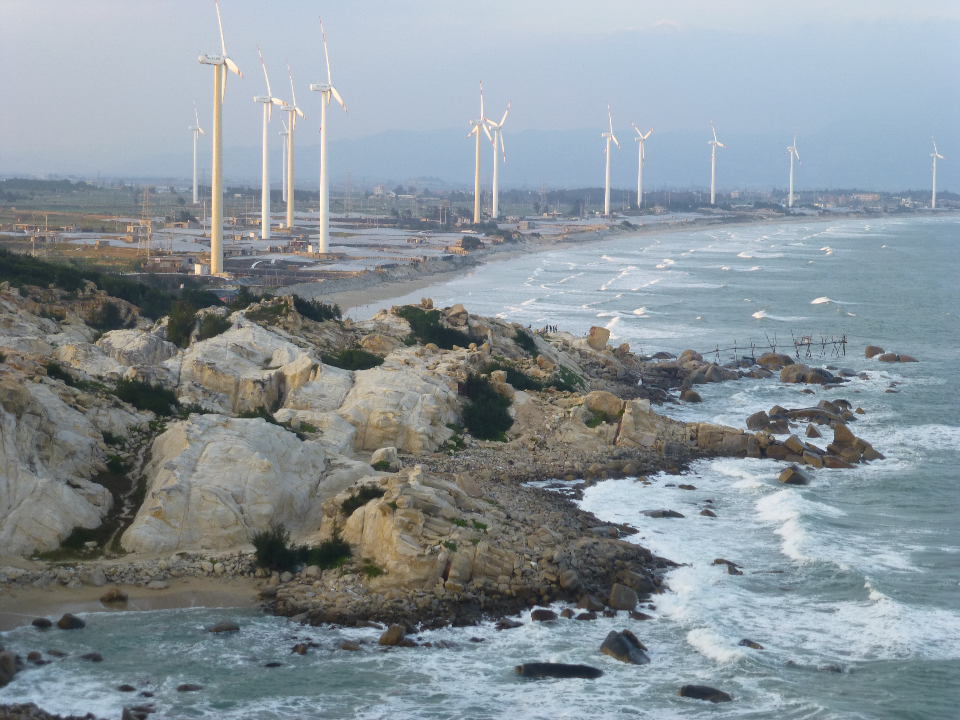 wind power turbines in Liu'ao